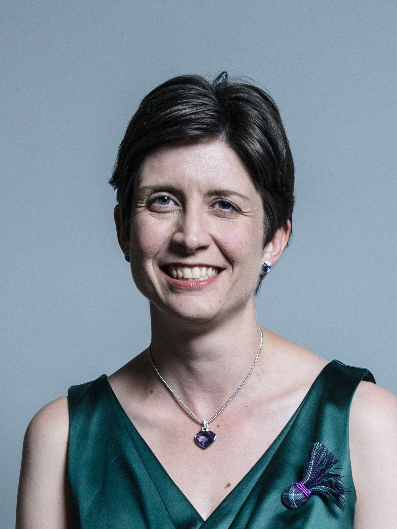 Official portrait of Alison Thewliss